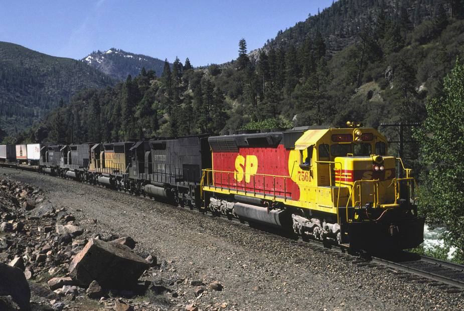 7561 Floriston June 86